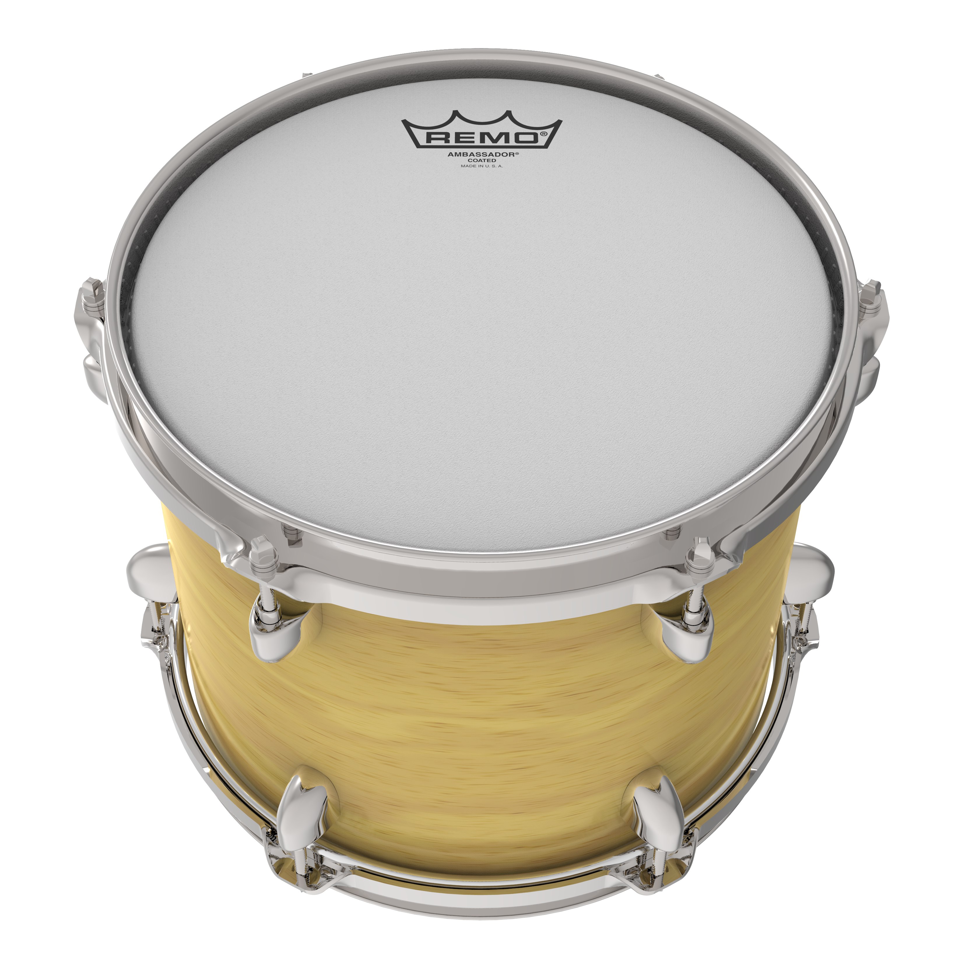 Drumhead with Coating, known as a Coated drumhead, fitted on a Tom(tom tom) drumset drum.